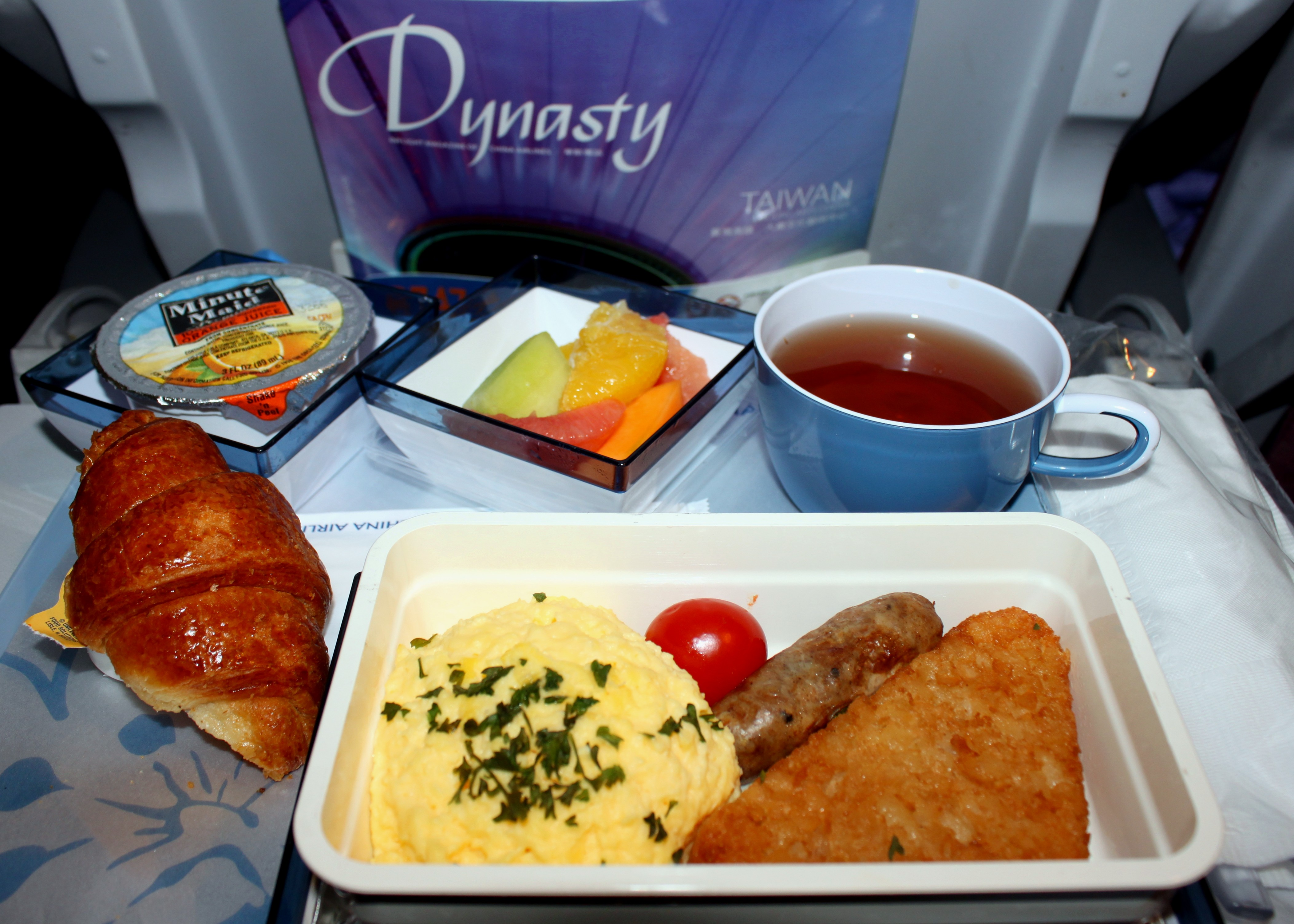 China Airlines in-flight meal